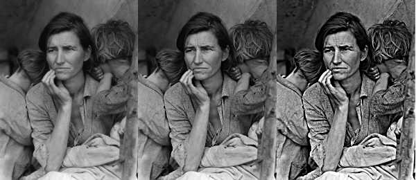 Example of accutance enhancement. First is unenhanced, second has slight accutance increase, third has an extreme increase. This is a retouched picture, which means that it has been digitally altered from its original version. The original can be viewed here: Lange-MigrantMother02.jpg.